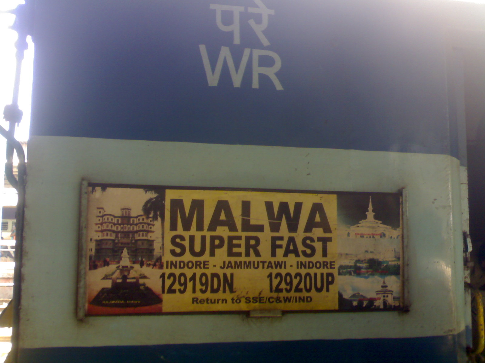 Logo of Malwa Express in english